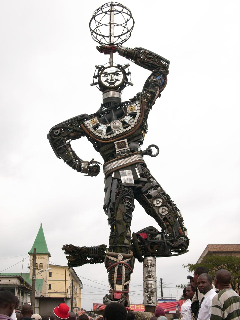 Joseph-Francis Sumégné, La Nouvelle Liberté, Douala, 1996. Public artwork commissioned by doual'art in 1996 and renovated in 2007 for the SUD Salon Urbain de Douala 2007. Photo by Christian Hanussek, Douala, 2007.